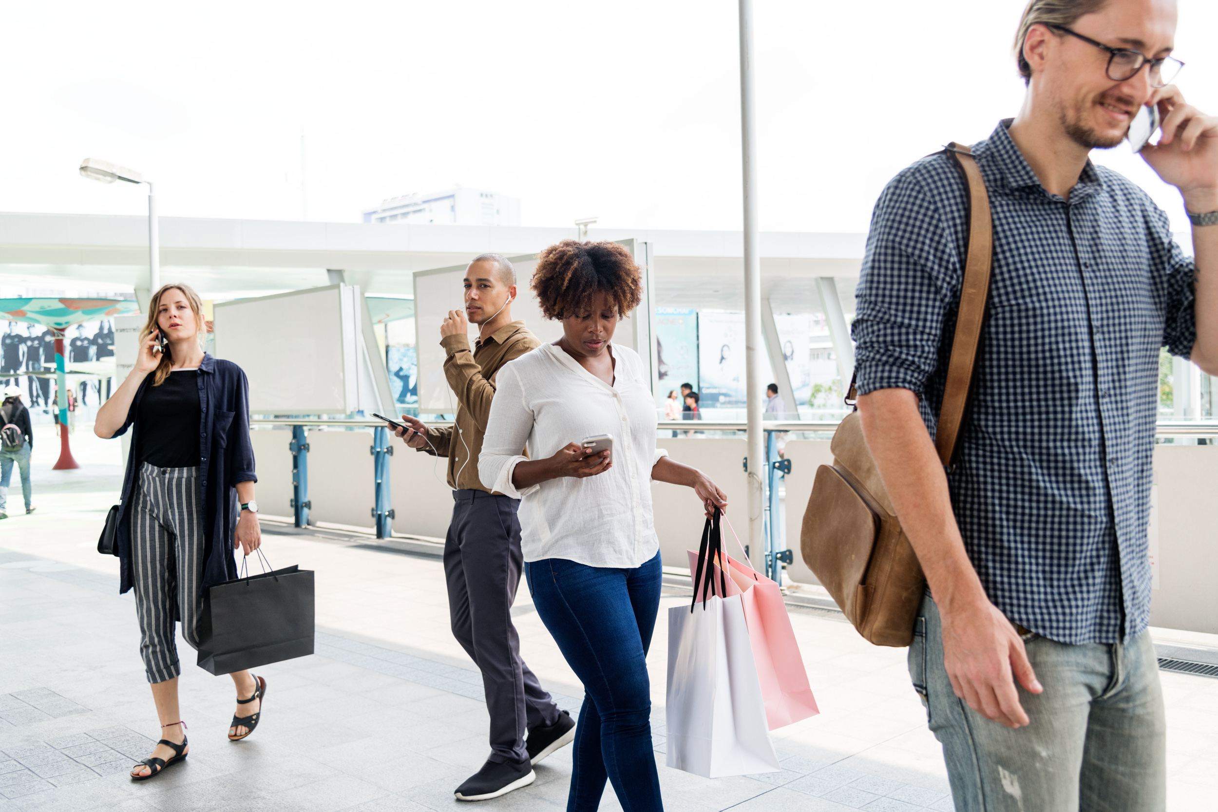 Crowd of people with phones